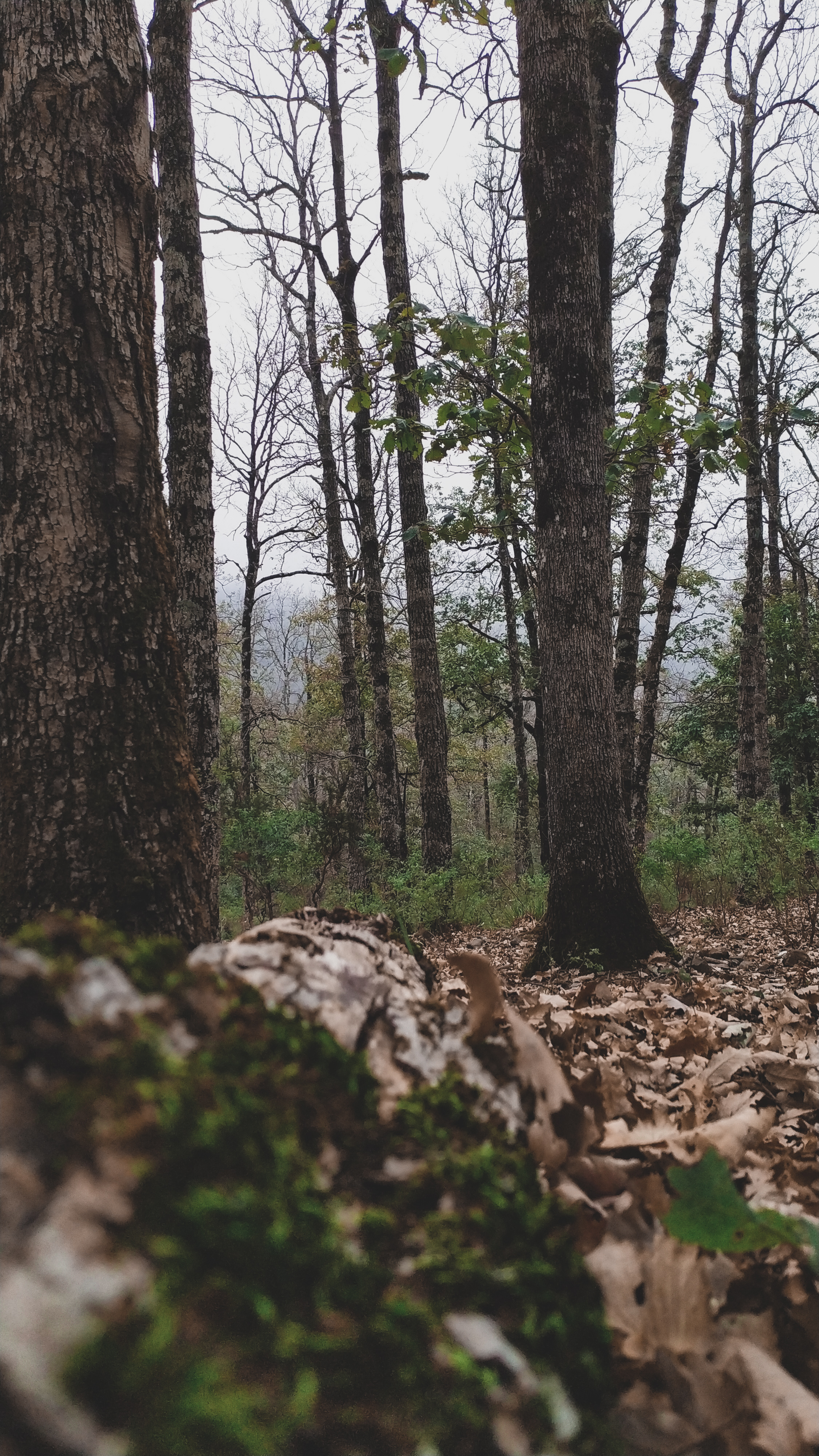 This is an image with the theme "Africa on the Move or Transport" from: Algeria